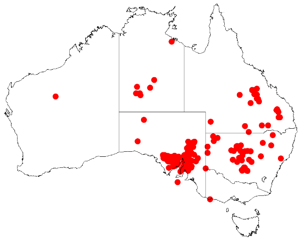 Scaevola humilis occurrence data downloaded from Australasian Virtual Herbarium 12 May 2019